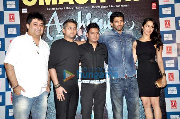 Shraddha Kapoor at the success bash of 'Aashiqui 2' at Escobar